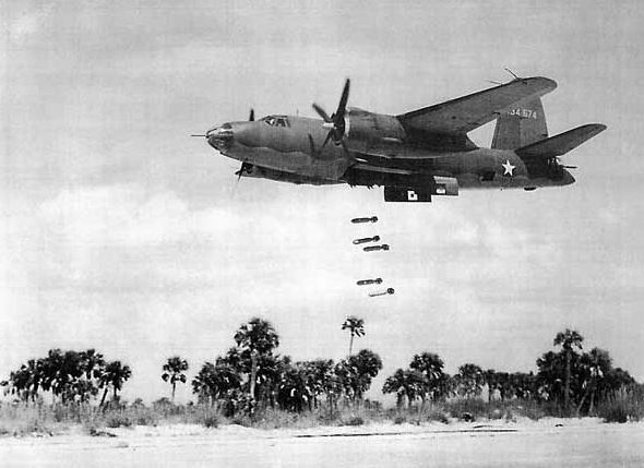 Photo of B-26 Marauder 41-34674 at Eglin Field, Florida in 1942 on a bomb training run. This aircraft was the 2d B-26C off the Martin B-26 production line at Omaha, Nebraska. It later served with the Air Forces Training Command Twin Engine Flight Transition School at Laughlin Field, Texas later in the war.